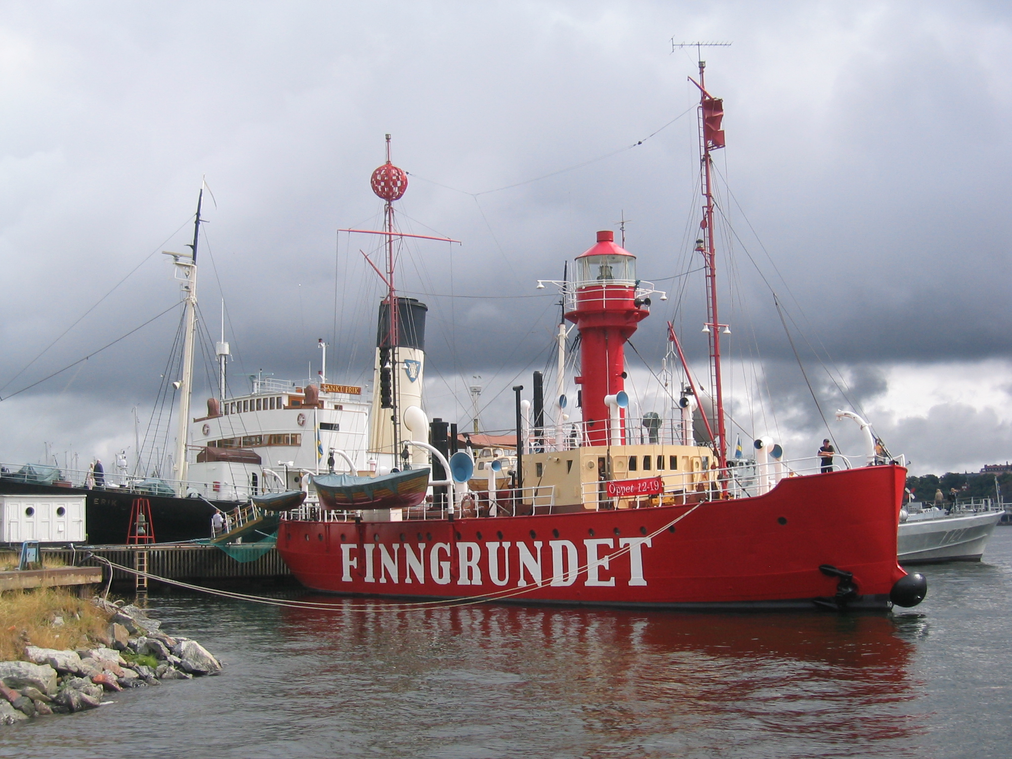 The Lightship Finngrundet, now a museum ship, moored in Stockholm, Sweden adjacent to the Vasa Museum. It operated off Finngrundet banks in the Baltic Sea during the ice free months from 1903 until replaced with an automated lighthouse in 1969. Digital photograph taken by Jll on 23 July 2005